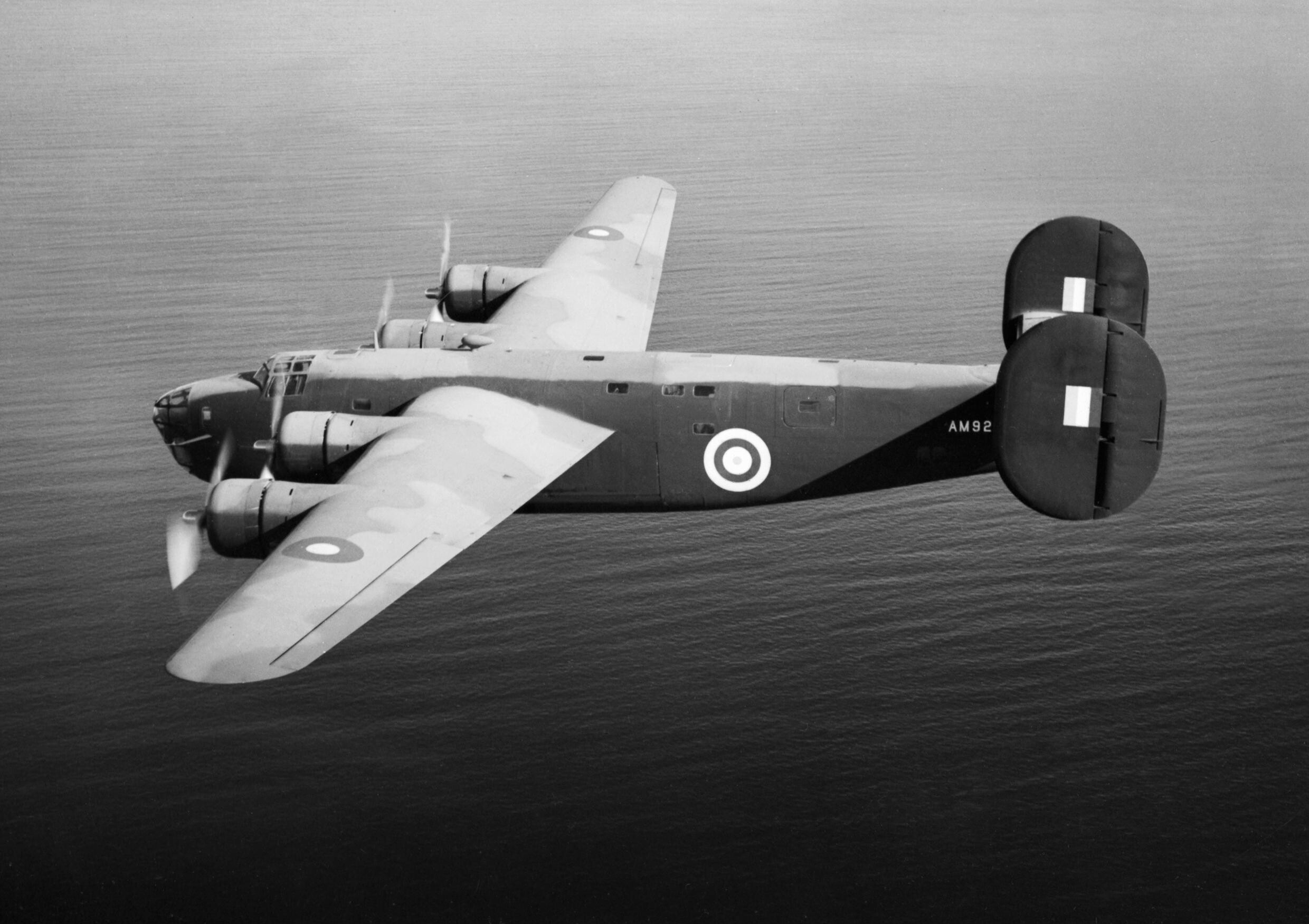 A US-built Consolidated Liberator Mk I approaching Aldergrove in Northern Ireland after an eight-hour ferry flight across the Atlantic, May 1941. Liberator Mark I, AM922, approaching the Northern Irish coast to land at Aldergrove, County Antrim, after an eight-hour ferry flight across the Atlantic. This aircraft served in various roles with the RAF, flying with No. 120 Squadron RAF, the Special Duties Flight, No. 1425 (Communication) Flight and finally with No. 511 Squadron RAF.